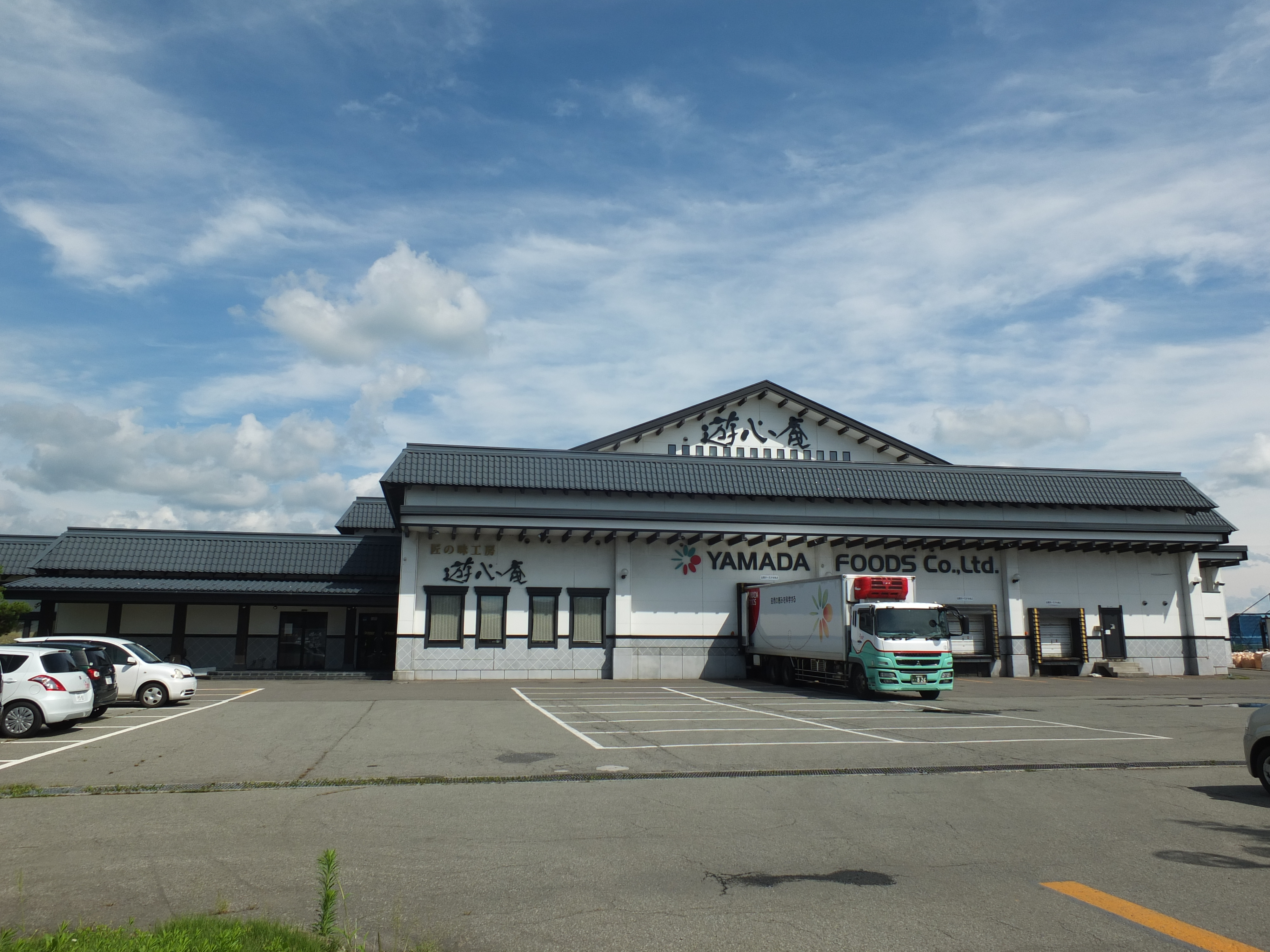 "YU-SIN-AN, the factory of taste of artisan" in Yokote city, Akita prefecture, Japan. This is YAMADA FOODS (Nattō maker) factory, making Tōfu, Yuba (Tōfu skin), Soybean milk, etc.